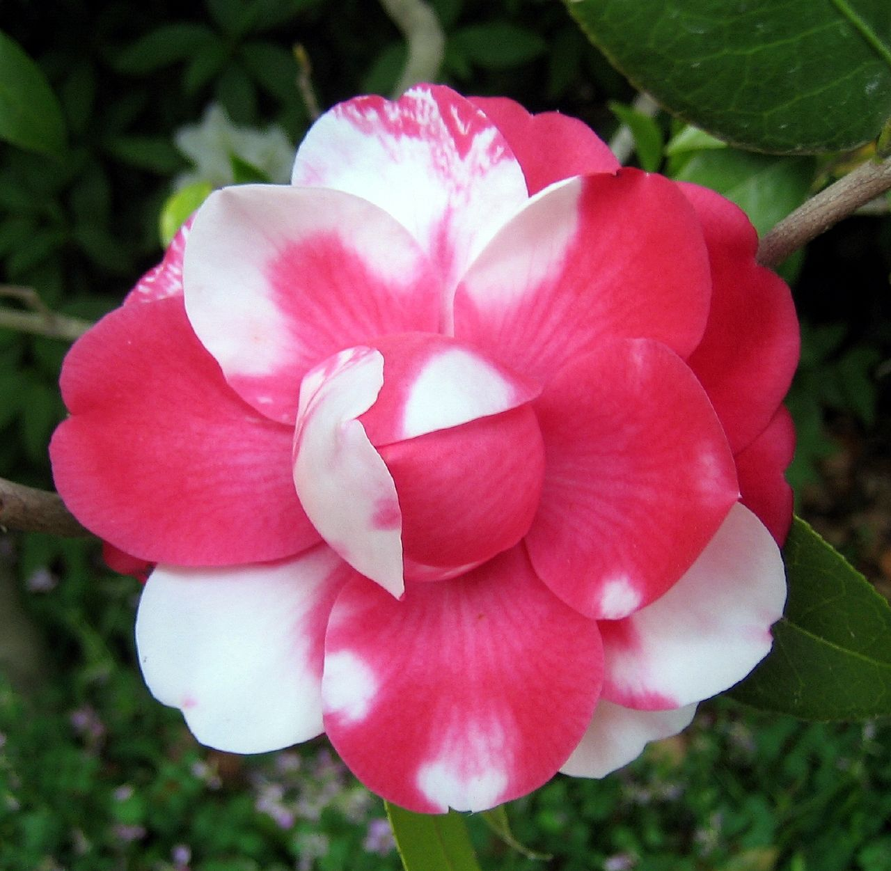 Hybrid pink and white camellia (Camellia cultivar Rhododendron sp., fam. Ericaceae); an example of co-dominance, or incomplete dominance. Picture taken in Japan.IMG_1287